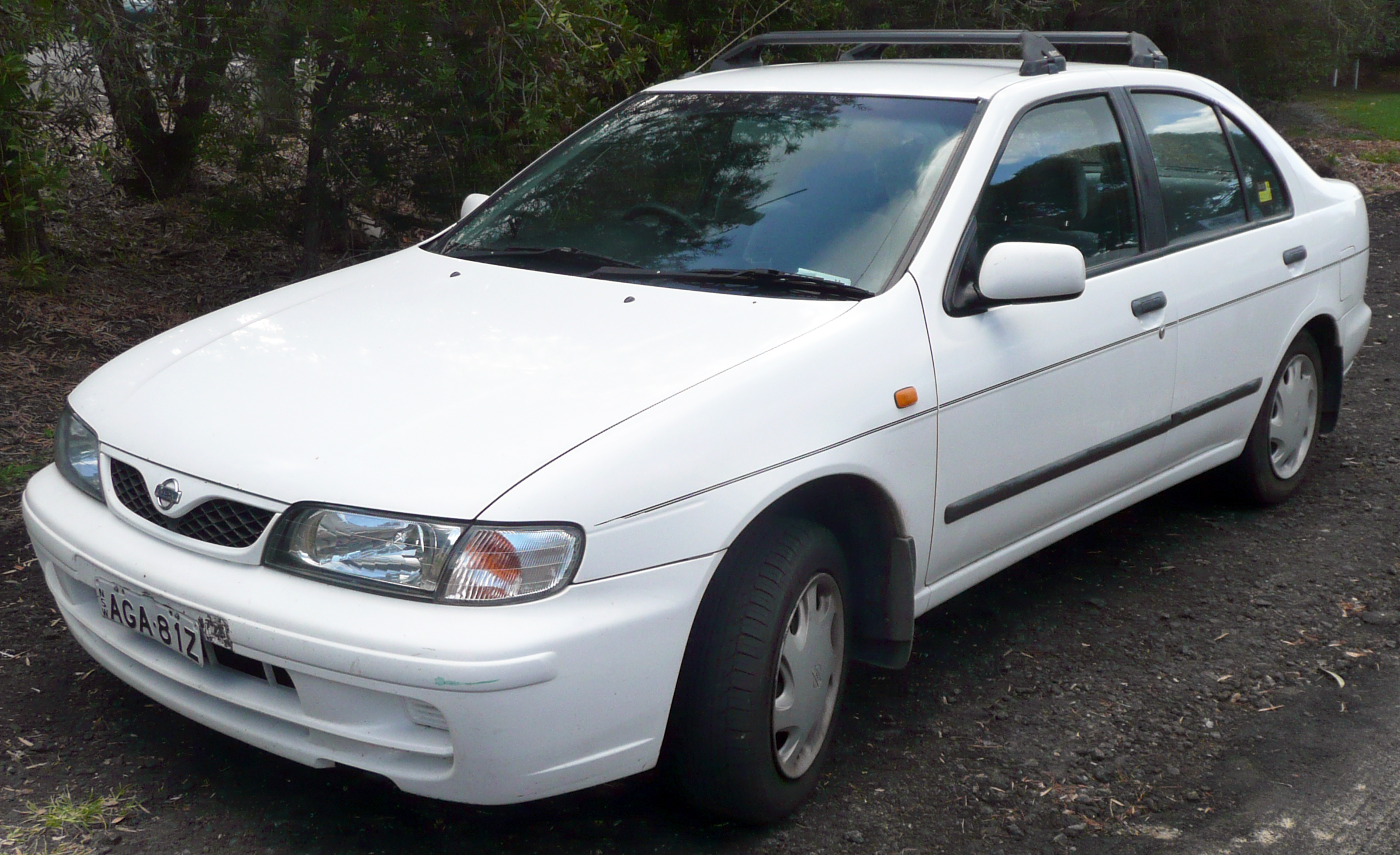 1998 Nissan Pulsar (N15 S2) LX sedan. Photographed in Loftus, New South Wales, Australia.